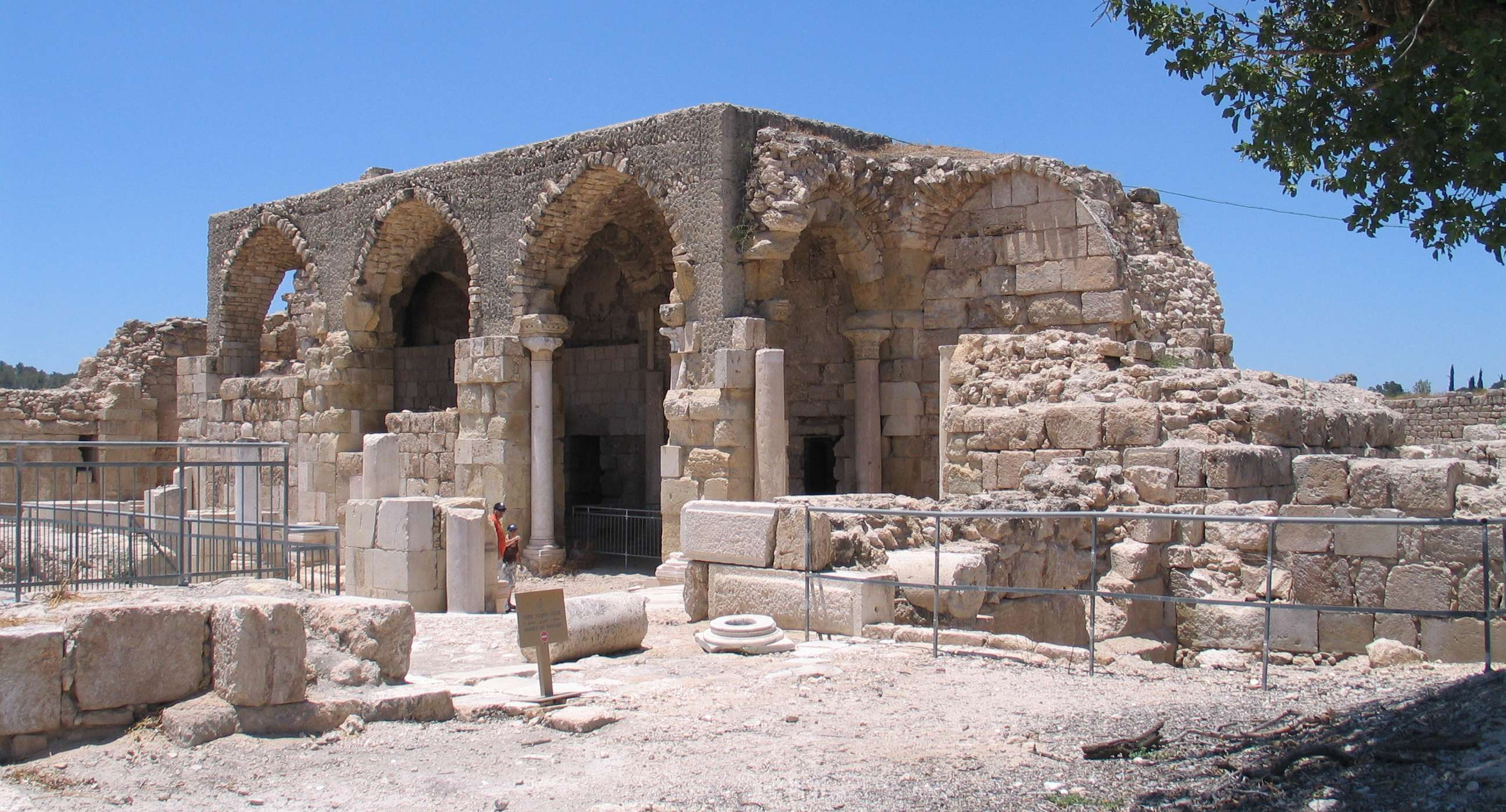 Crusader church, Beyt Govrin, Israel.